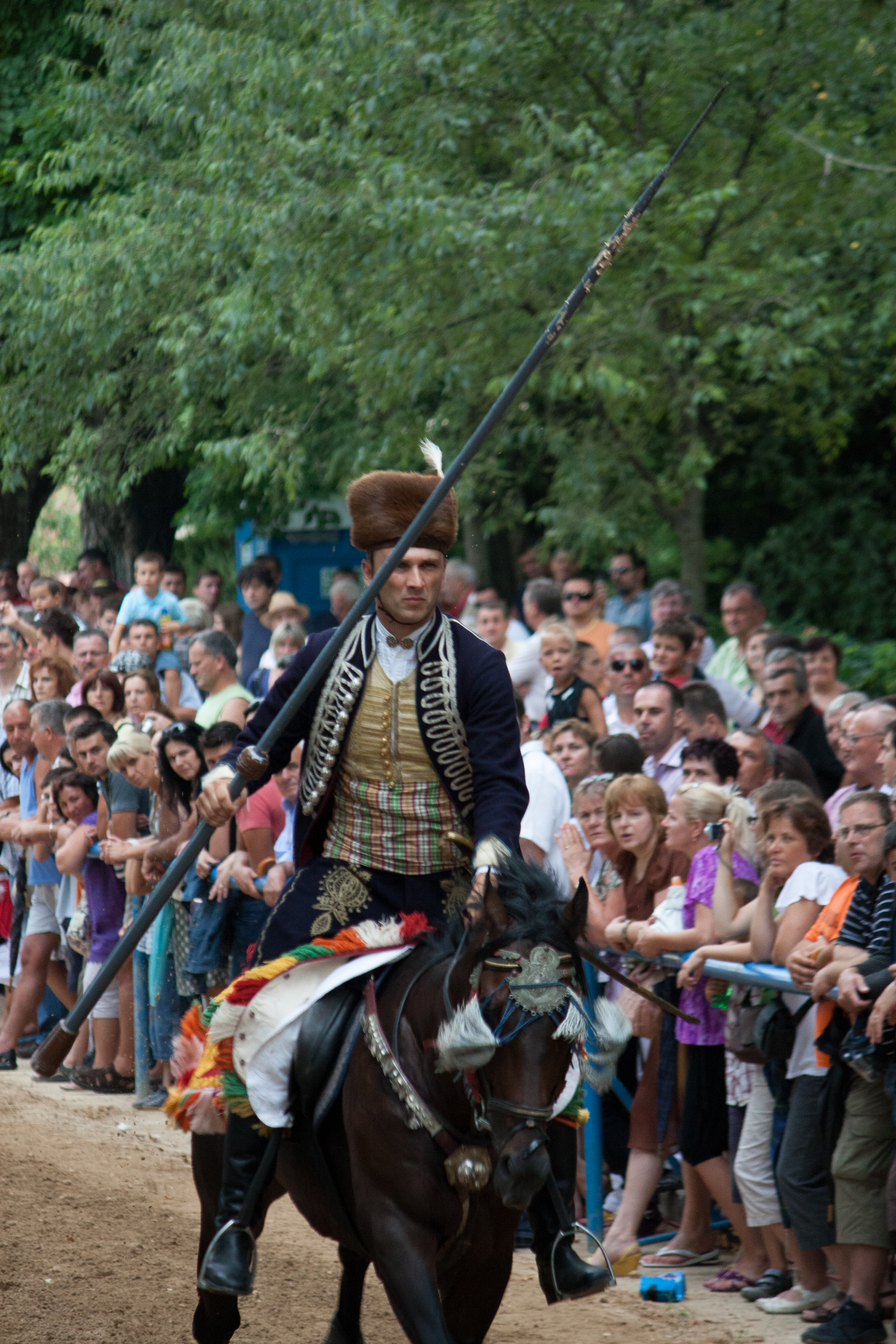 A participant